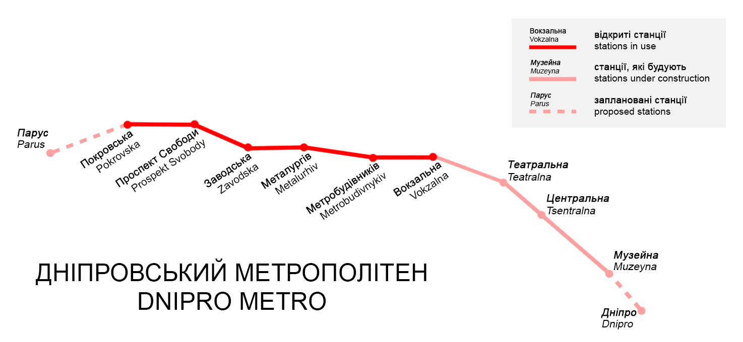 Map of Dnipro Metro (planned stations and stations under construction also marked).